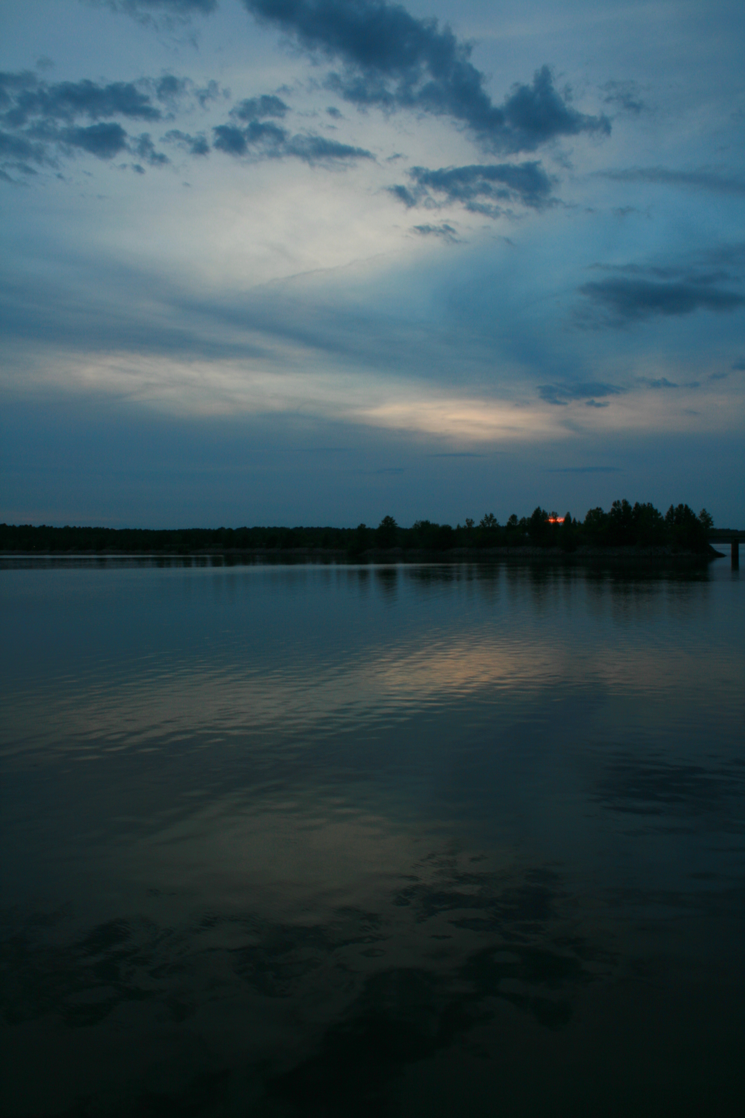 Sunset on Falls Lake.